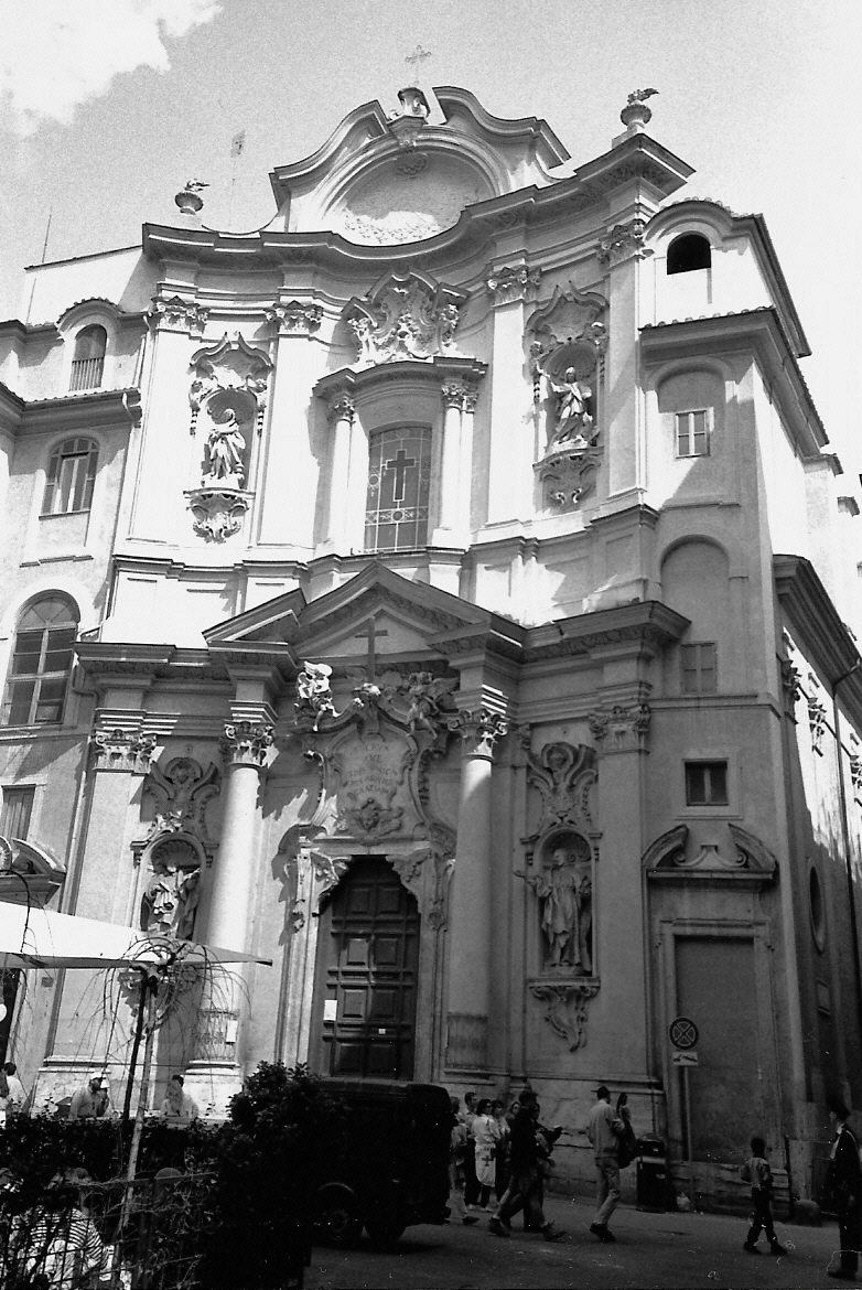 Church of the Maddalena, Rome. Facade by Giuseppe Sardi. Picture by Torvindus.